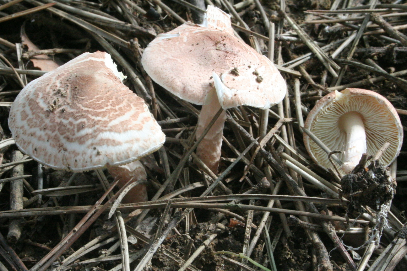 Lepiota brunneoincarnata in a park in Massy, France.